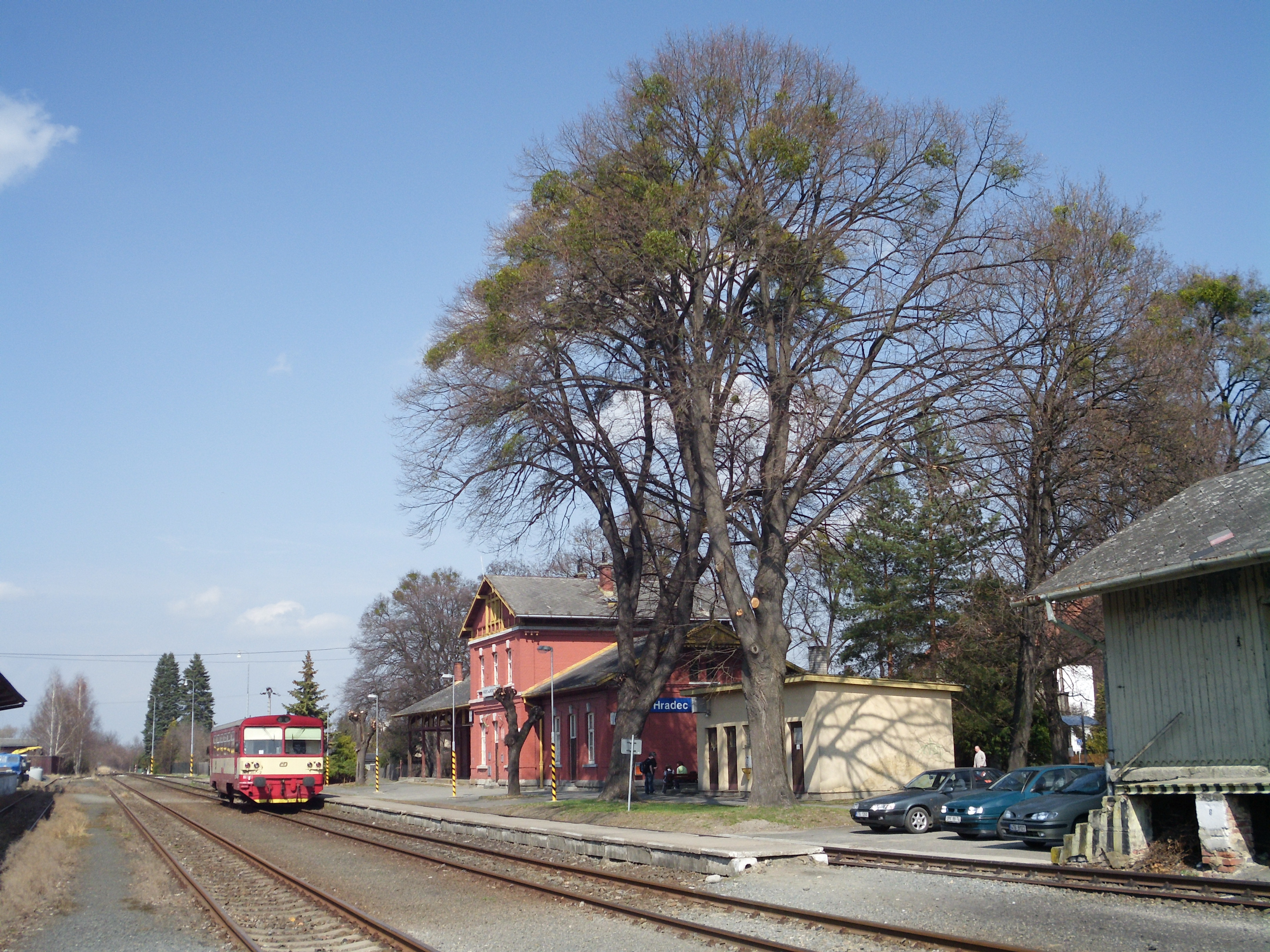 Train station (route 315) in Hradec nad Moravicí, Czech Republic